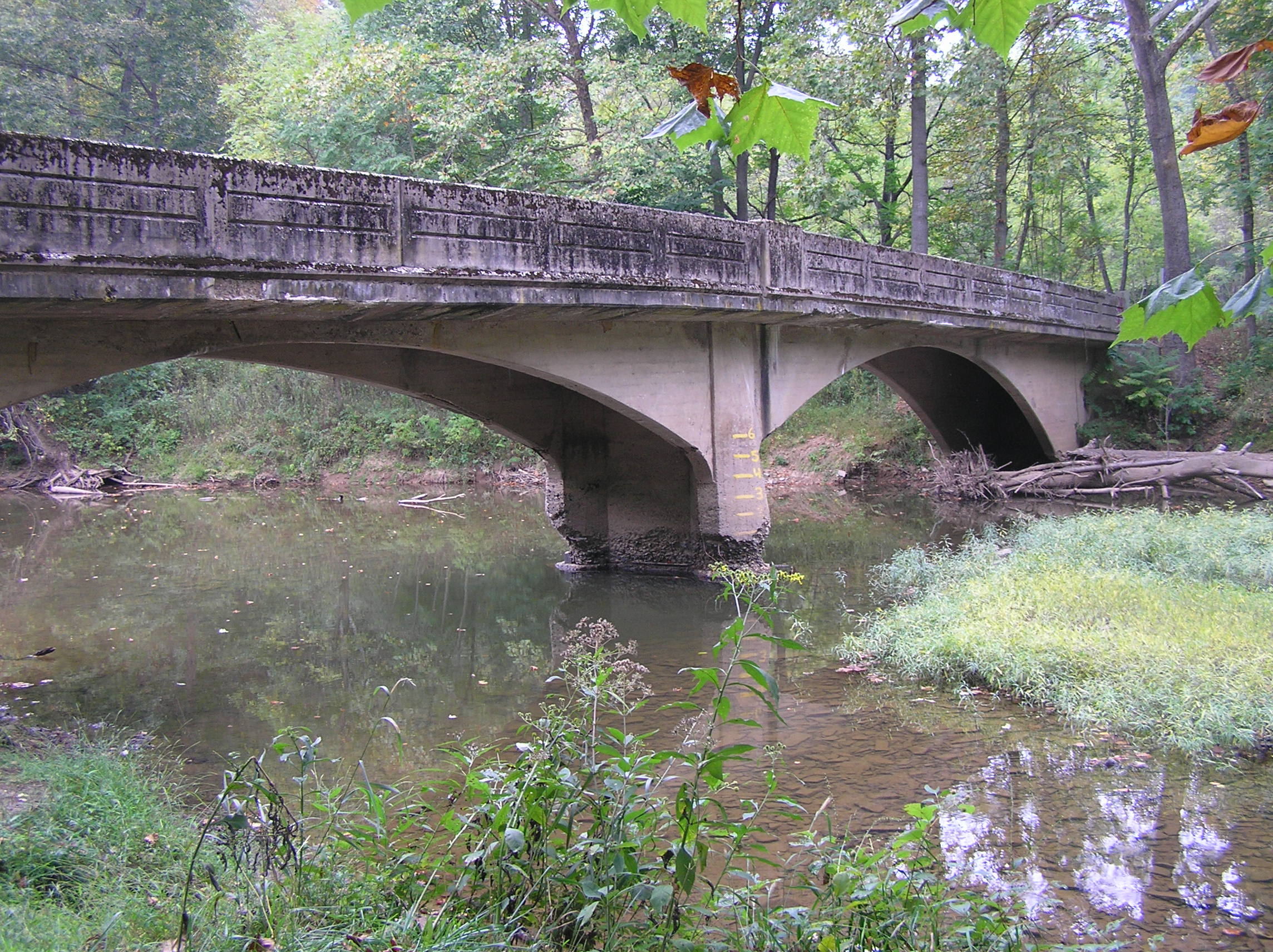 North River viewed from Cold Stream Road (County Route 45/20) bridge at North River Mills, West Virginia, United States.